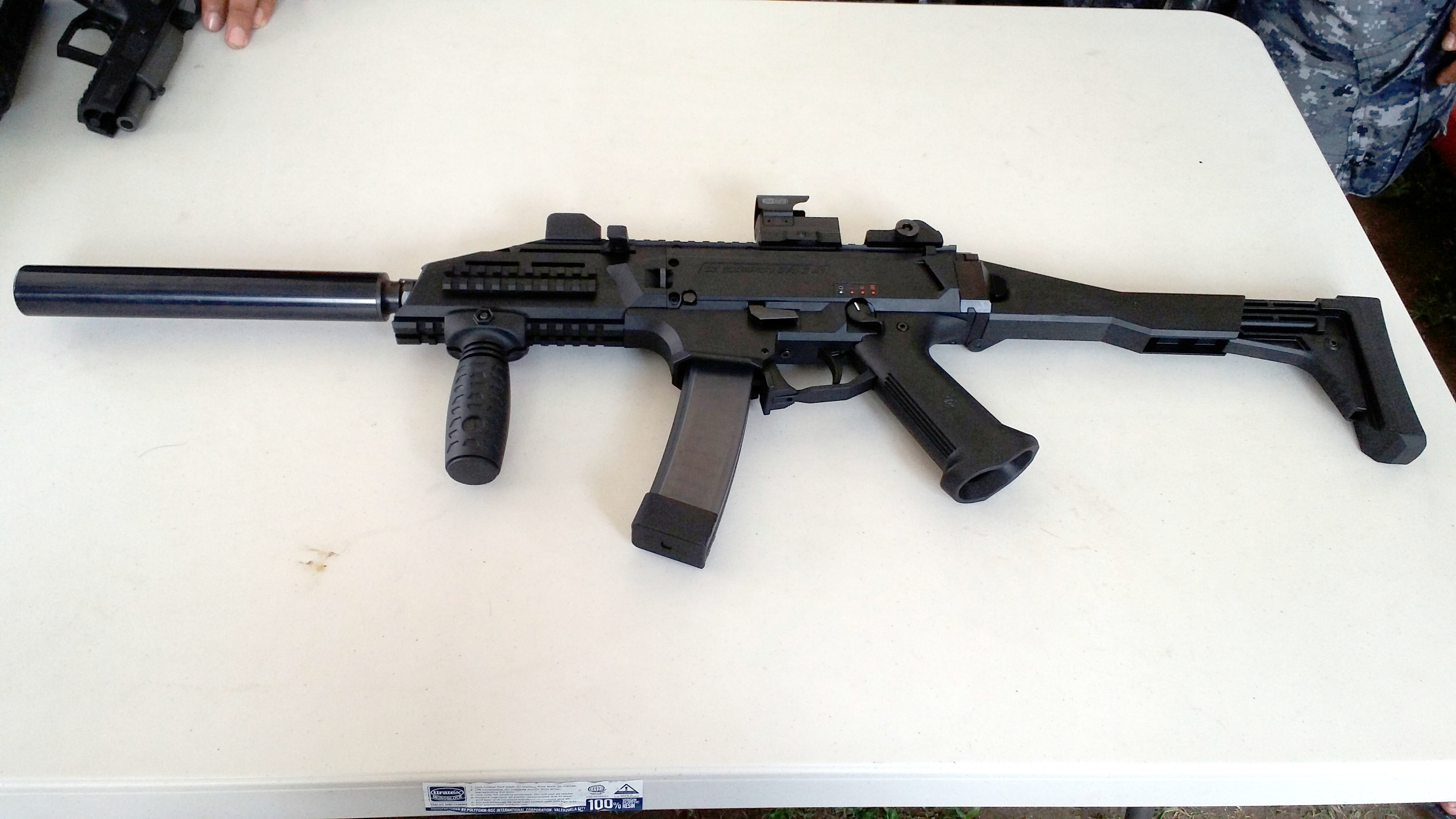 A Scorpion Evo 3 Sub-Machine Gun with Suppressor of the Philippine Coast Guard Special Forces Unit. Photo taken during the 2015 AFP Independence Day Static/Capability Display at the Lapu-Lapu Monument Area in the Luneta Park.